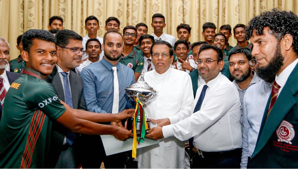 Meeting H.EMaithripala Sirisena the President of Democratic Socialist Republic of Sri Lanka with Champions and the Runners-up with the main Sponsor Oxford Group.